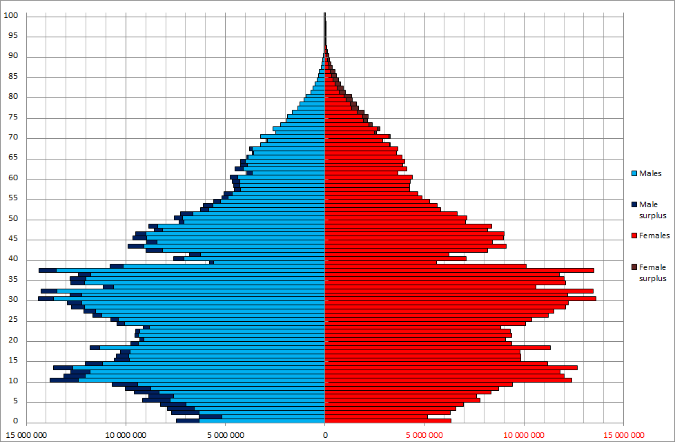 Population of China by age and sex (demographic pyramid) as of November, 1, 2000 (5th national census results) HTML Excel